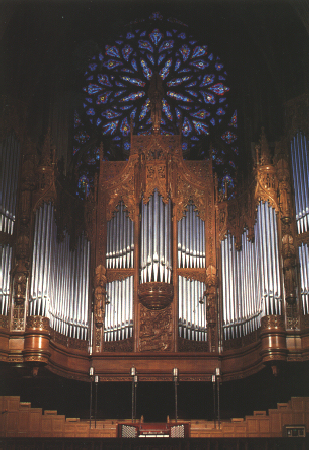 St Patricks Cathedral Gallery Organ Case